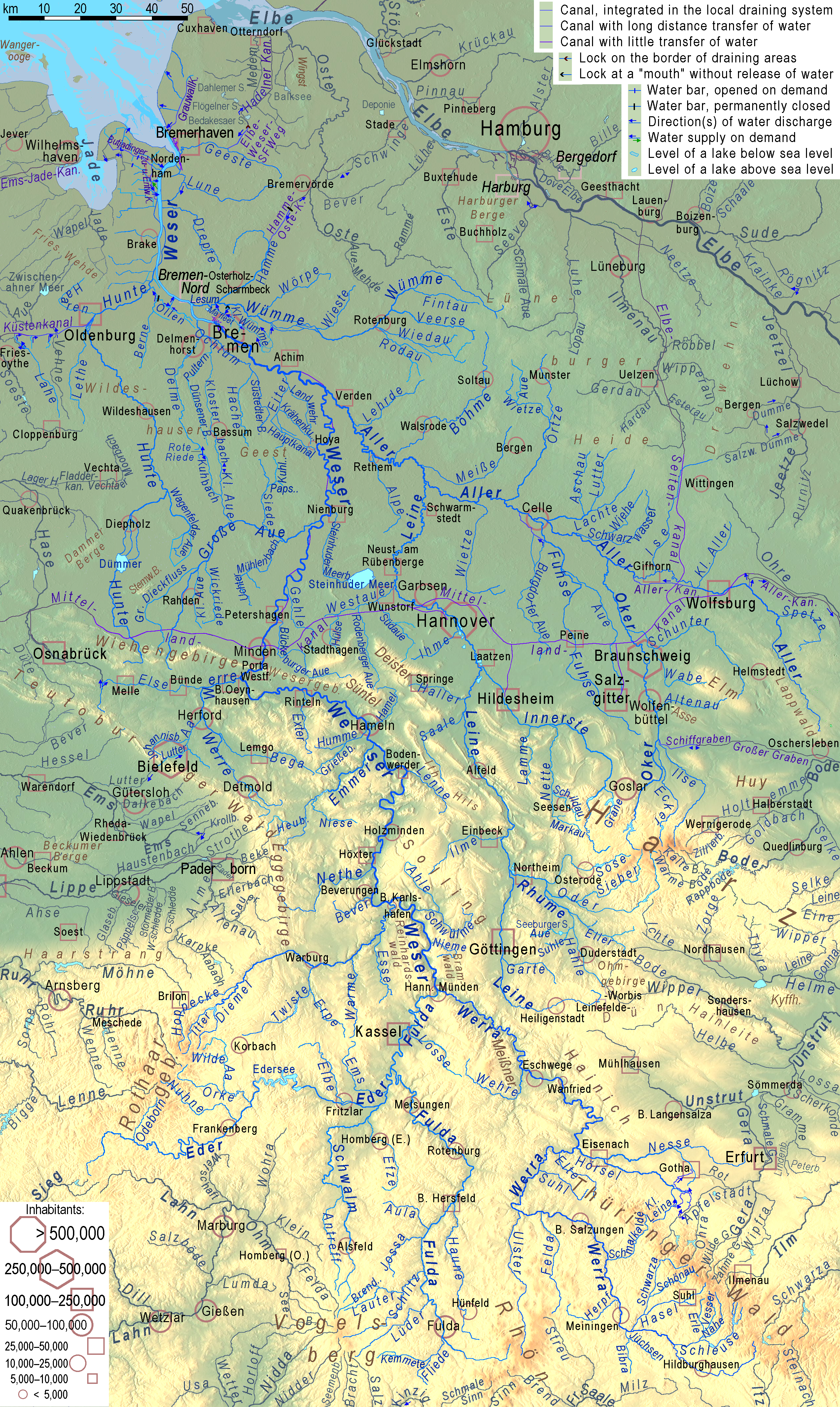 Topographic map of Weser River system, with English description